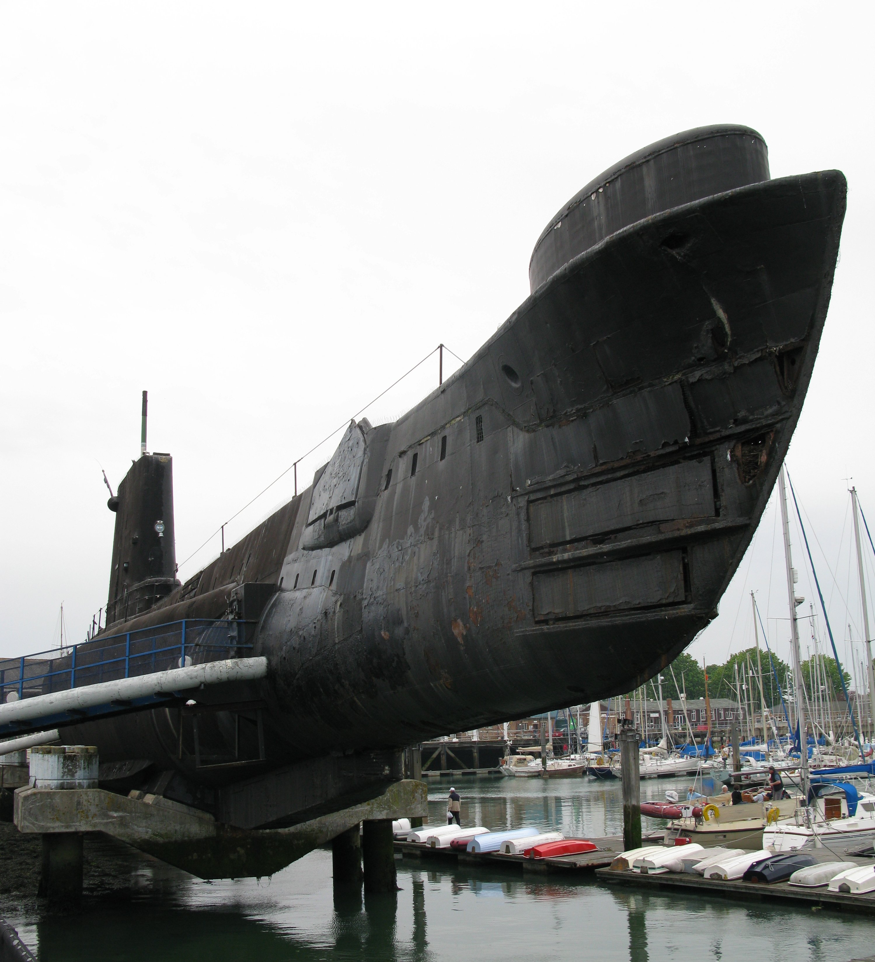 Photo of HMS Alliance (an Amphion class submarine) on display at the Royal navy submarine museum